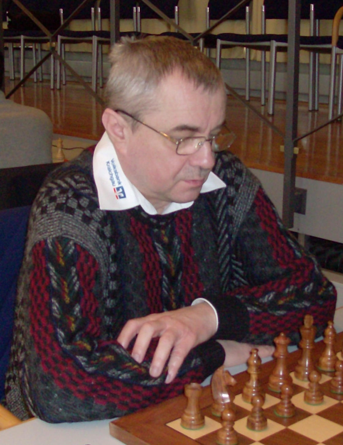 Lothar Vogt, chess grandmaster from Germany